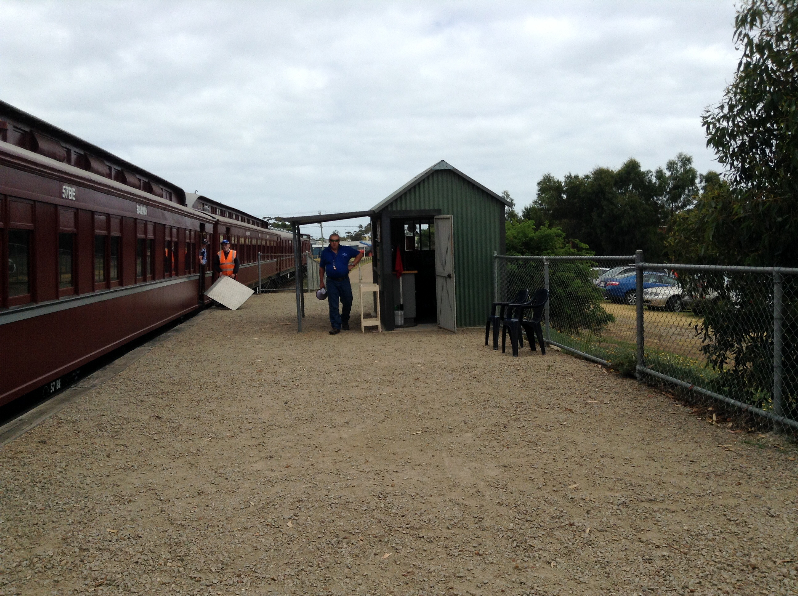 Mornington station as of January 2014